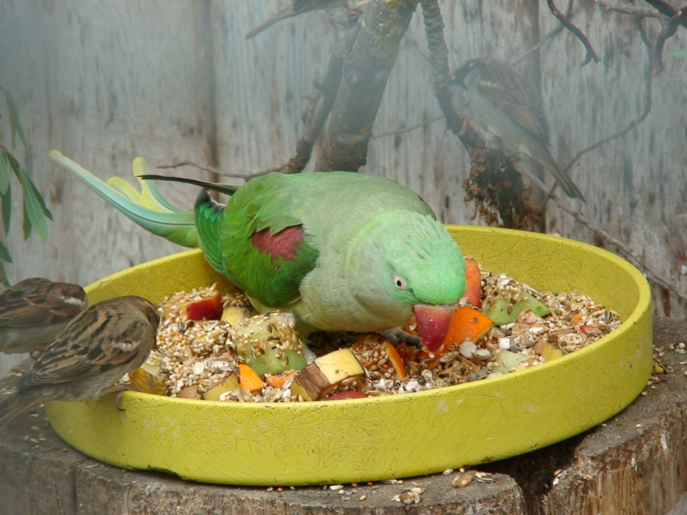 An adult female Alexandrine Parakeet eating with two sparrows at Walter Zoo, Gossau, Switzerland.